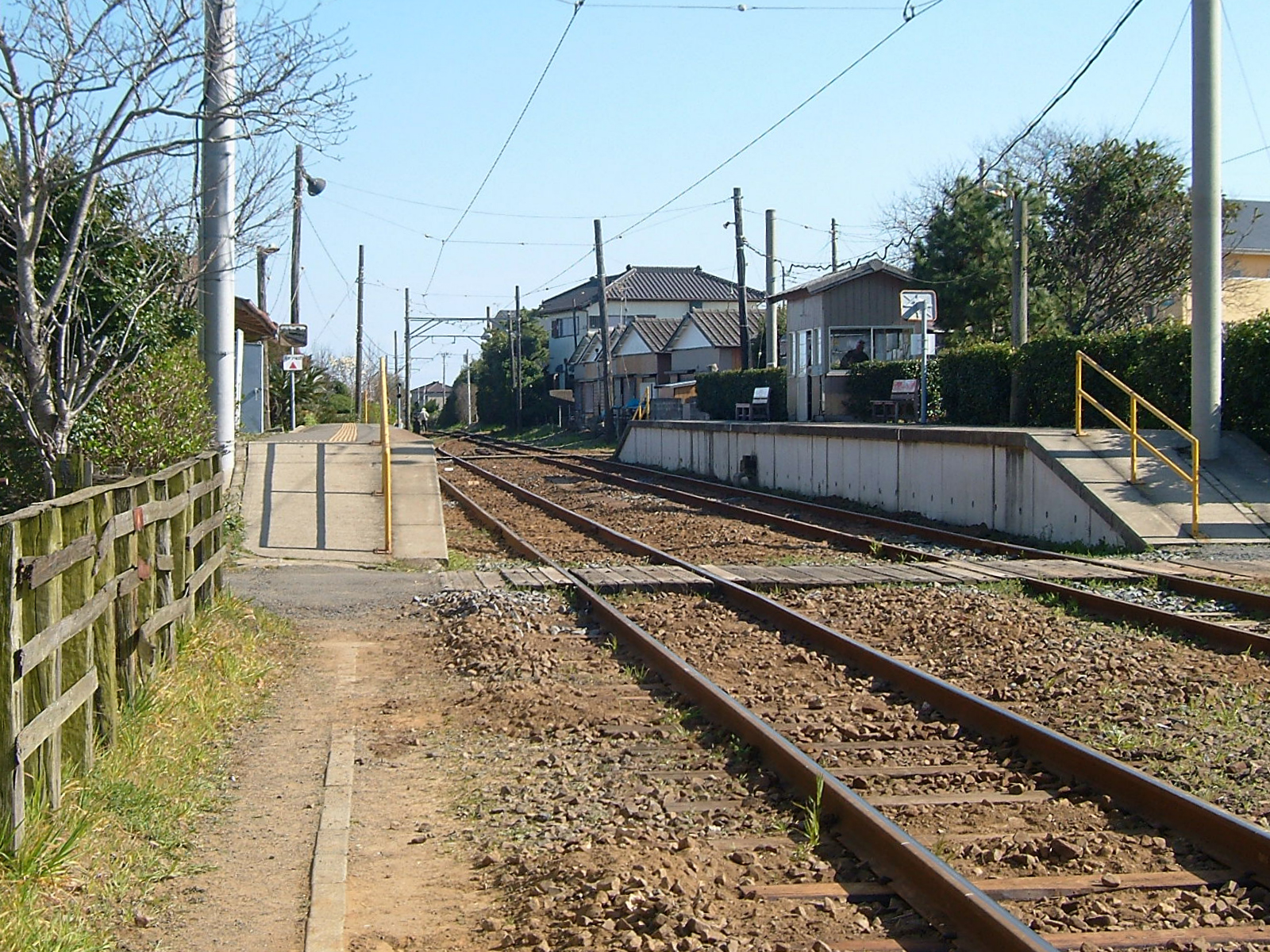 Kasagami-Kurohae Station on the Choshi Electric Railway viewed from the Choshi end